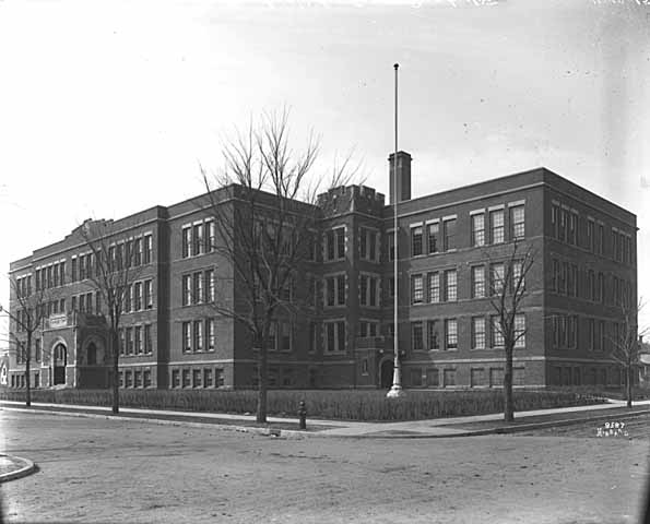 North High School, 1701 Fremont Avenue North, Minneapolis. Must of been rebuilt after a fire on June 18 1923. Old school is Image:Minneapolis North High School 1902.jpg